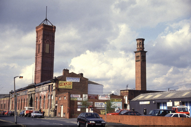 Tower Works, Leeds, West Yorkshire, England, showing two of the three towers (air extraction, not actually chimneys) - those modelled on Torre Del Communa, Verona and Giotto's campanile in Florence.